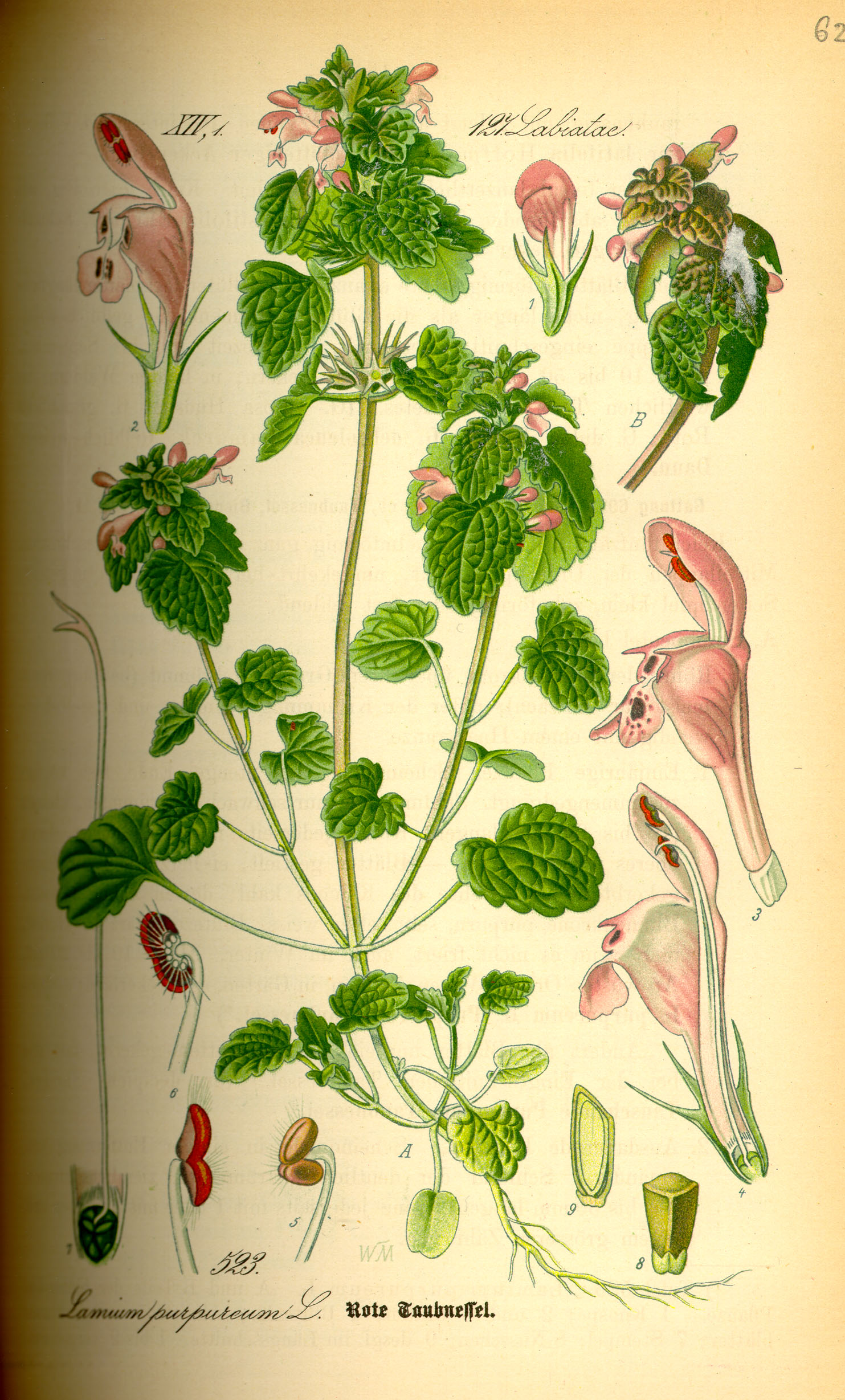 Lamium purpureum, Family:Lamiaceae